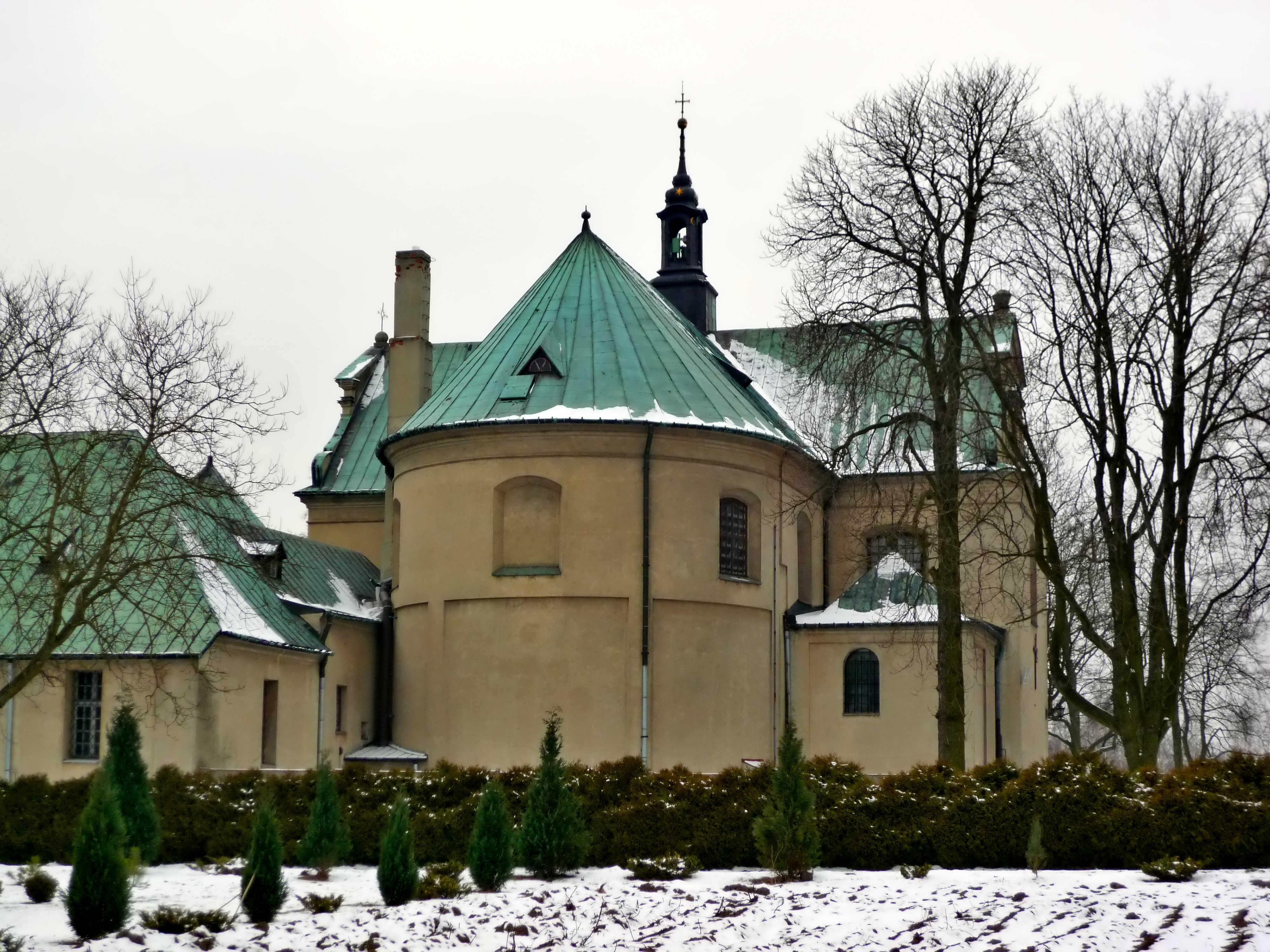 Łódź-Łagiewniki (Poland), St. Anthony of Padua Church - a view from the east side